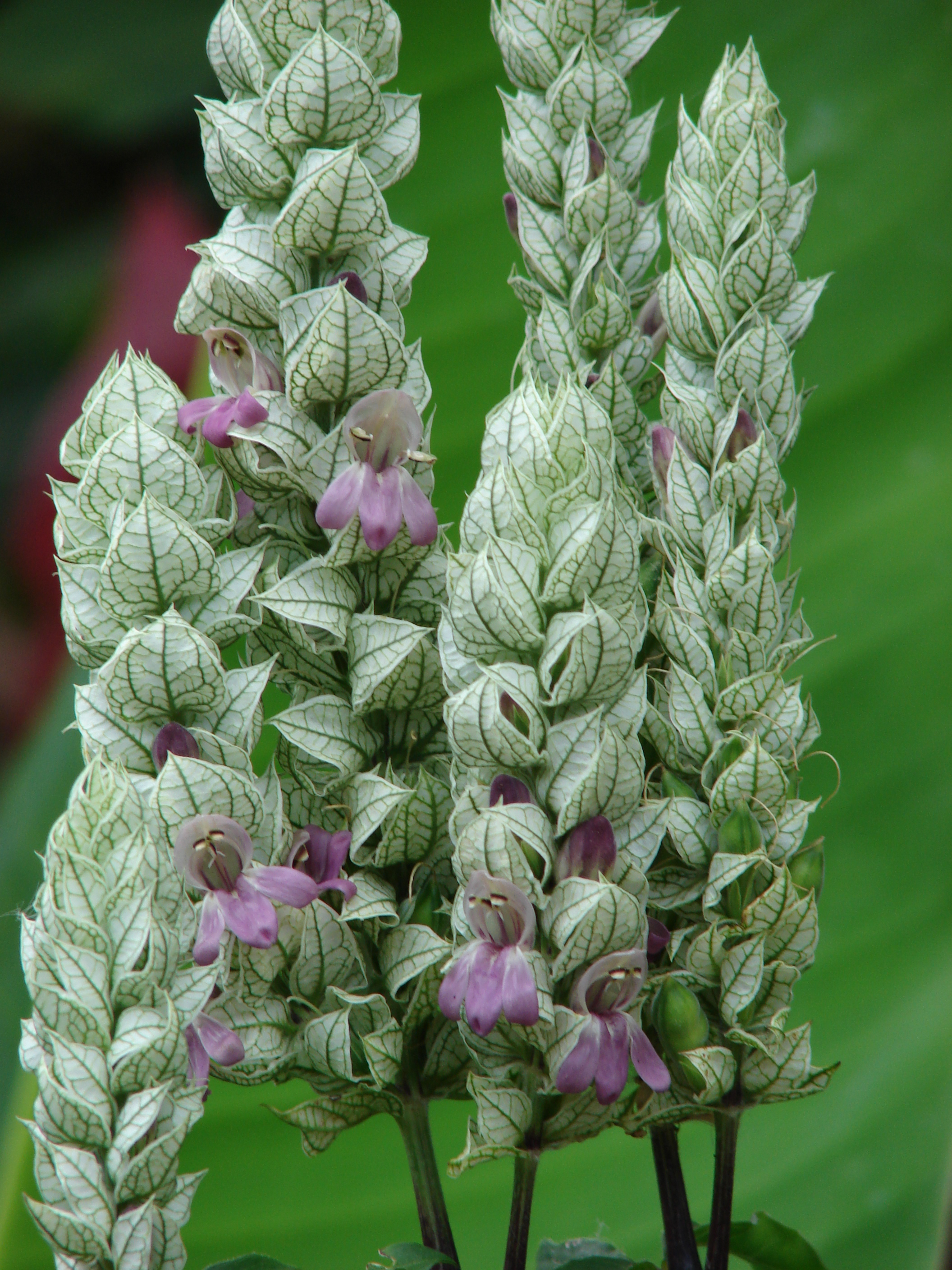 Justicia betonica (flowers). Location: Maui, Polis Restaurant Makawao